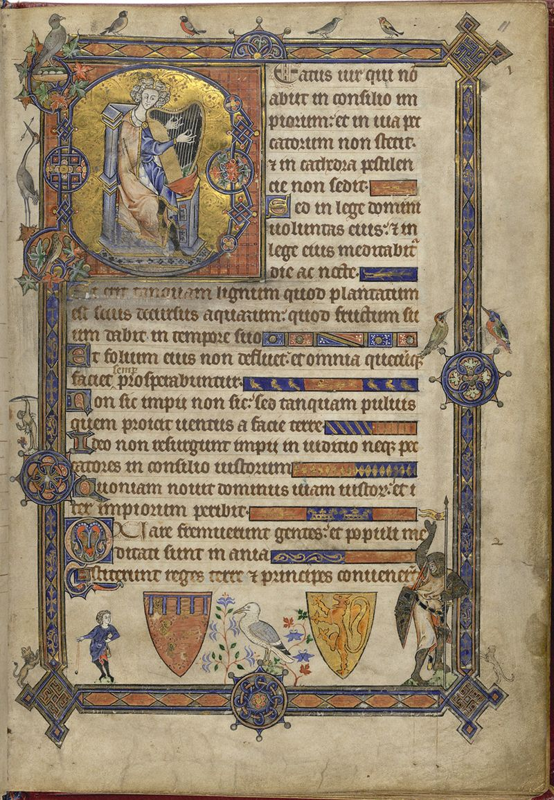 Alphonso Psalter Historiated initial 'B'(eatus) of King David playing the harp, with a bas-de-page scene of David and Goliath, and a full bar border, Additional 24686, f. 11